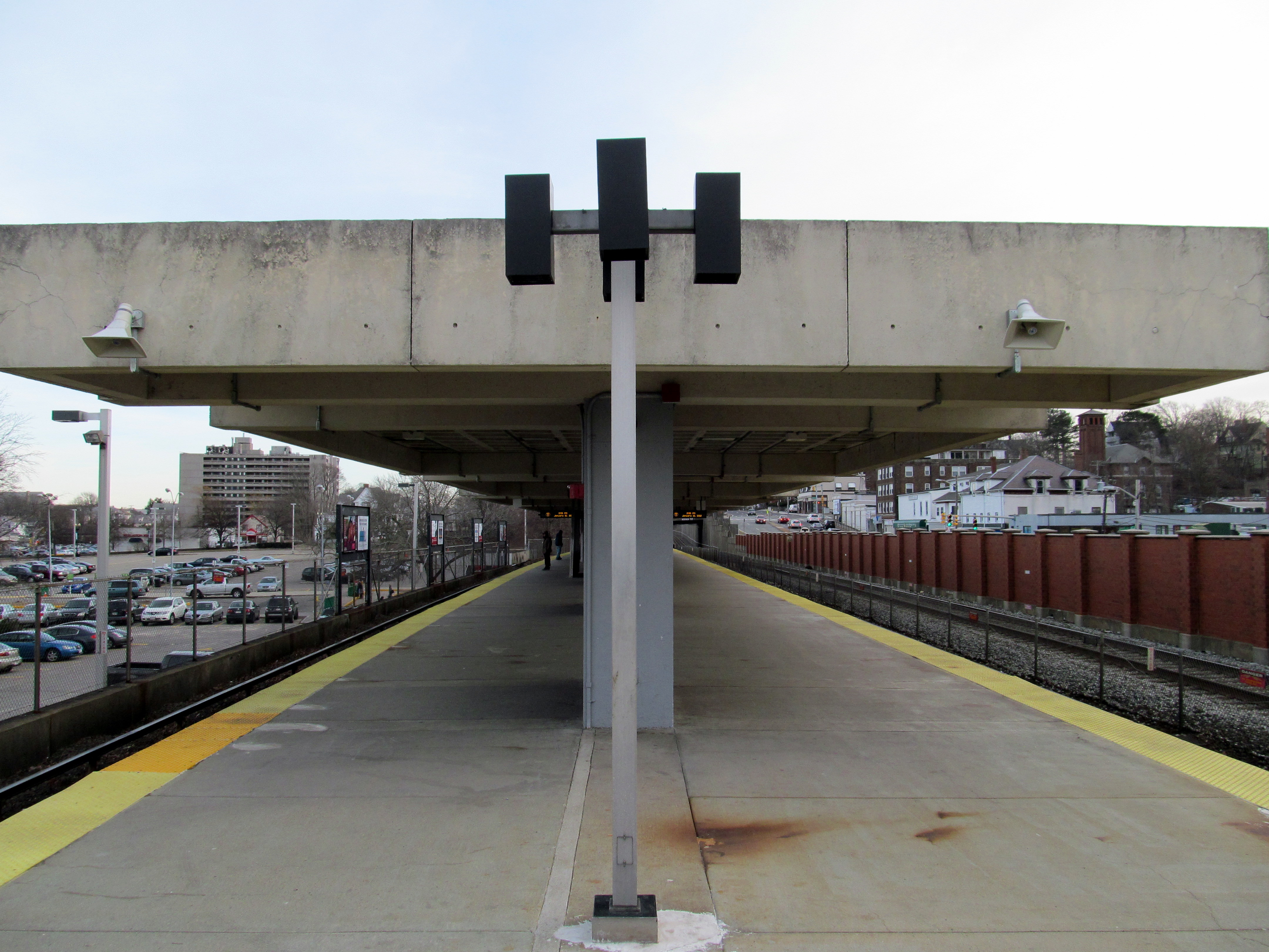 Wollaston station on the Red Line was built in the brutalist style